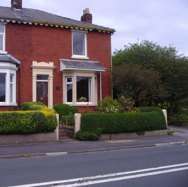 Kathleen Ferrier Birthplace, Blackburn Road, Higher Walton, Preston. This house is the birthplace of Kathleen Ferrier, opera singer, born 1912, died 1953. There is also a memorial garden alongside the river Darwen, Higher Walton.